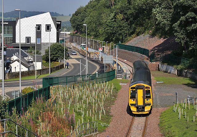 Class 158 on the Borders Railway at Galashiels, Great Britain, in August 2015